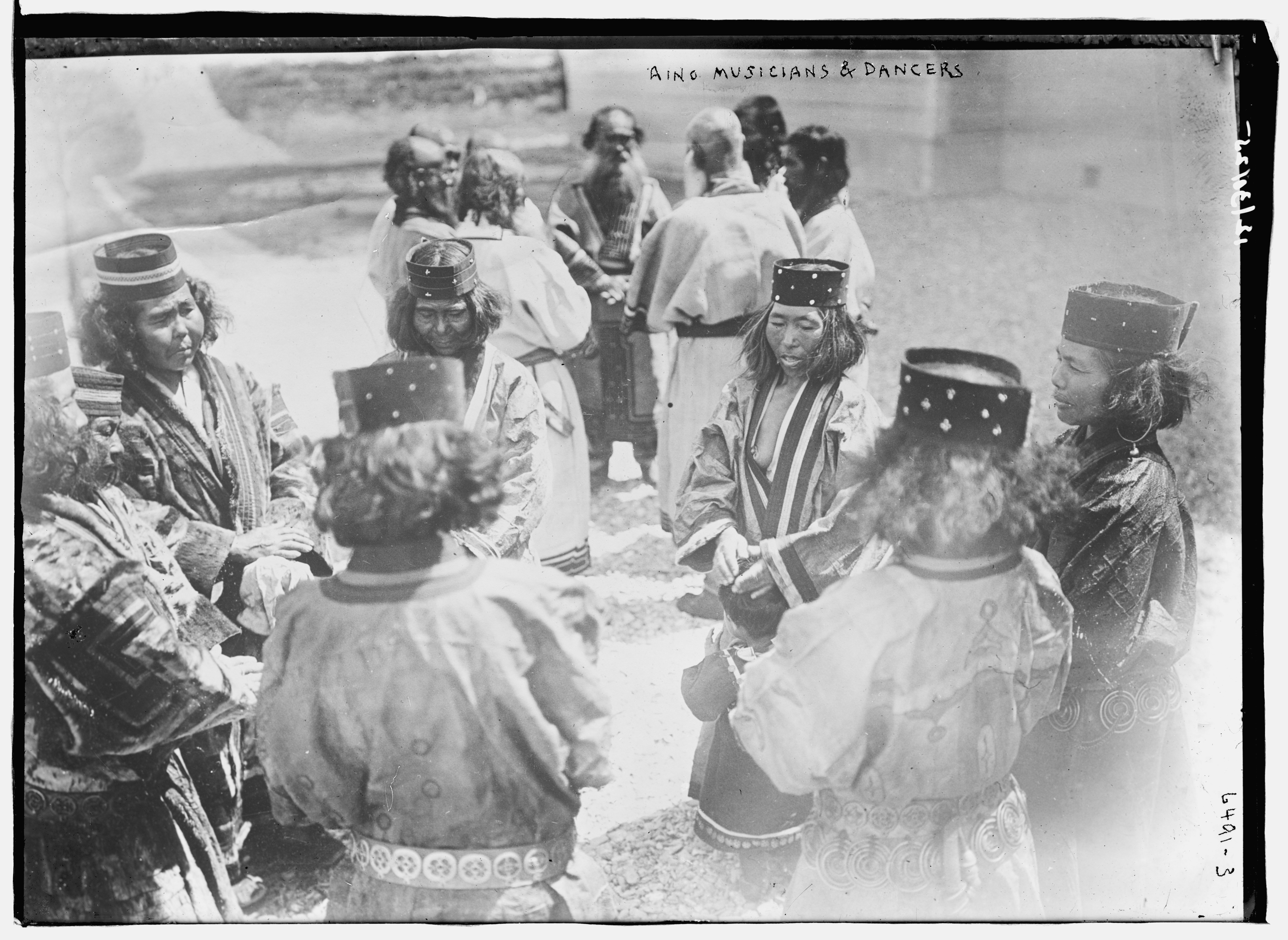 Title: Aino Musicians & Dancers Abstract/medium: 1 negative : glass ; 5 x 7 in. or smaller.